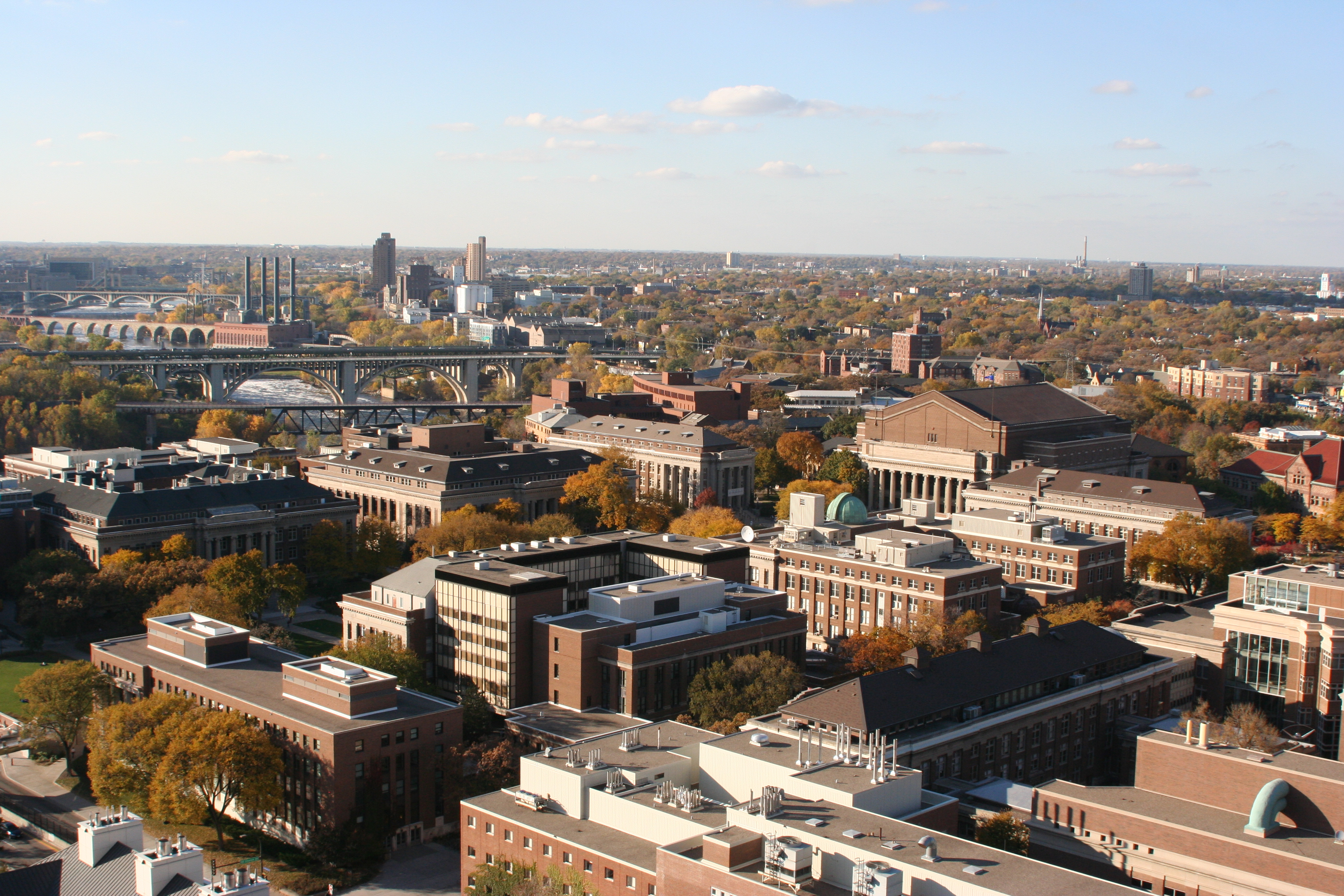 An aerial view of Northrop Mall, part of the University of Minnesota-Twin Cities' East Bank area